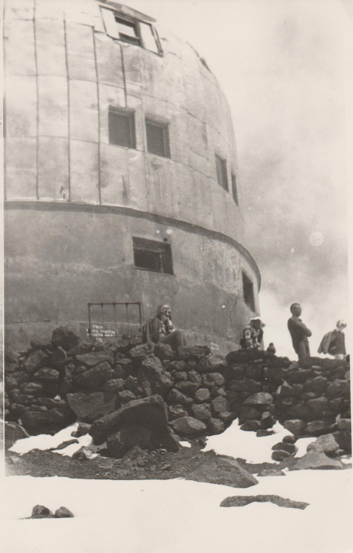 The Eleven's Refuge, 1970